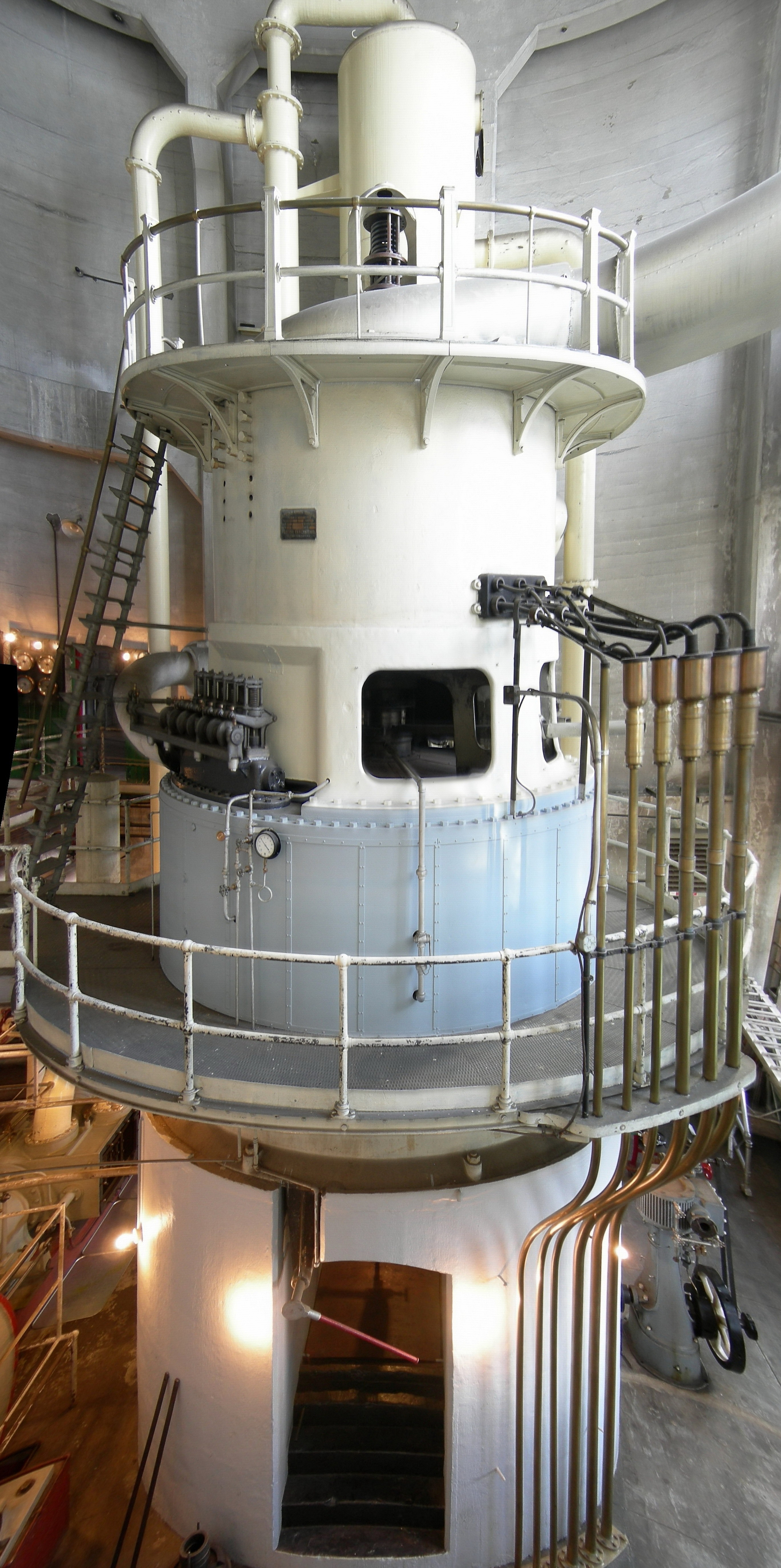 Inside the Georgetown PowerPlant Museum, Seattle, Washington, USA. The photos are of one of the two large vertical turbines. The alternator is above the center and the turbine is below the center. The valve for steam entry can be seen at about center left with a series of springs/rods actuated by cams on a shaft for controlling steam flow from the pipe that one can barely see coming around the left side into the valve. The electrical connections can be seen going down the side protected by copper tubing. These are Curtis/GE turbines and were state of the art for efficiency. The boilers are in the other half of the building. If you know about this topic, please feel free to replace this sentence with a better description of what is in the photo, and to add appropriate categories.